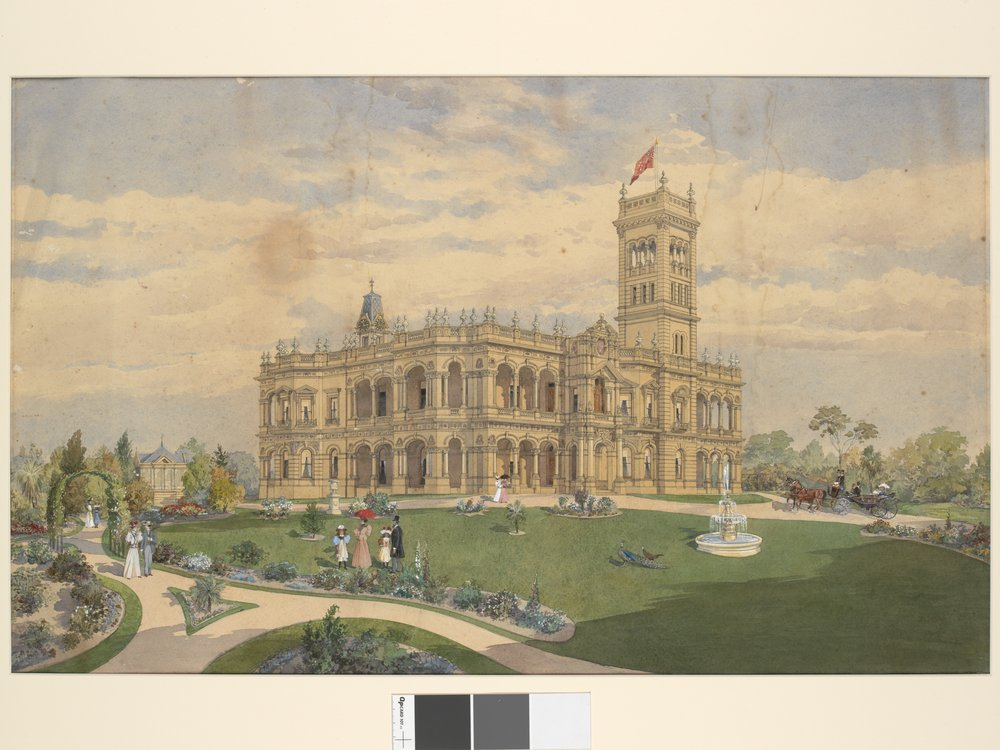 The Towers formerly Bracknell, corner of Lansell Road and St Georges Road Toorak, built for Sir Matthew Henry Davies, architects: Alfred Louis Smith and William Henry Ellerker. Demolished 1927.